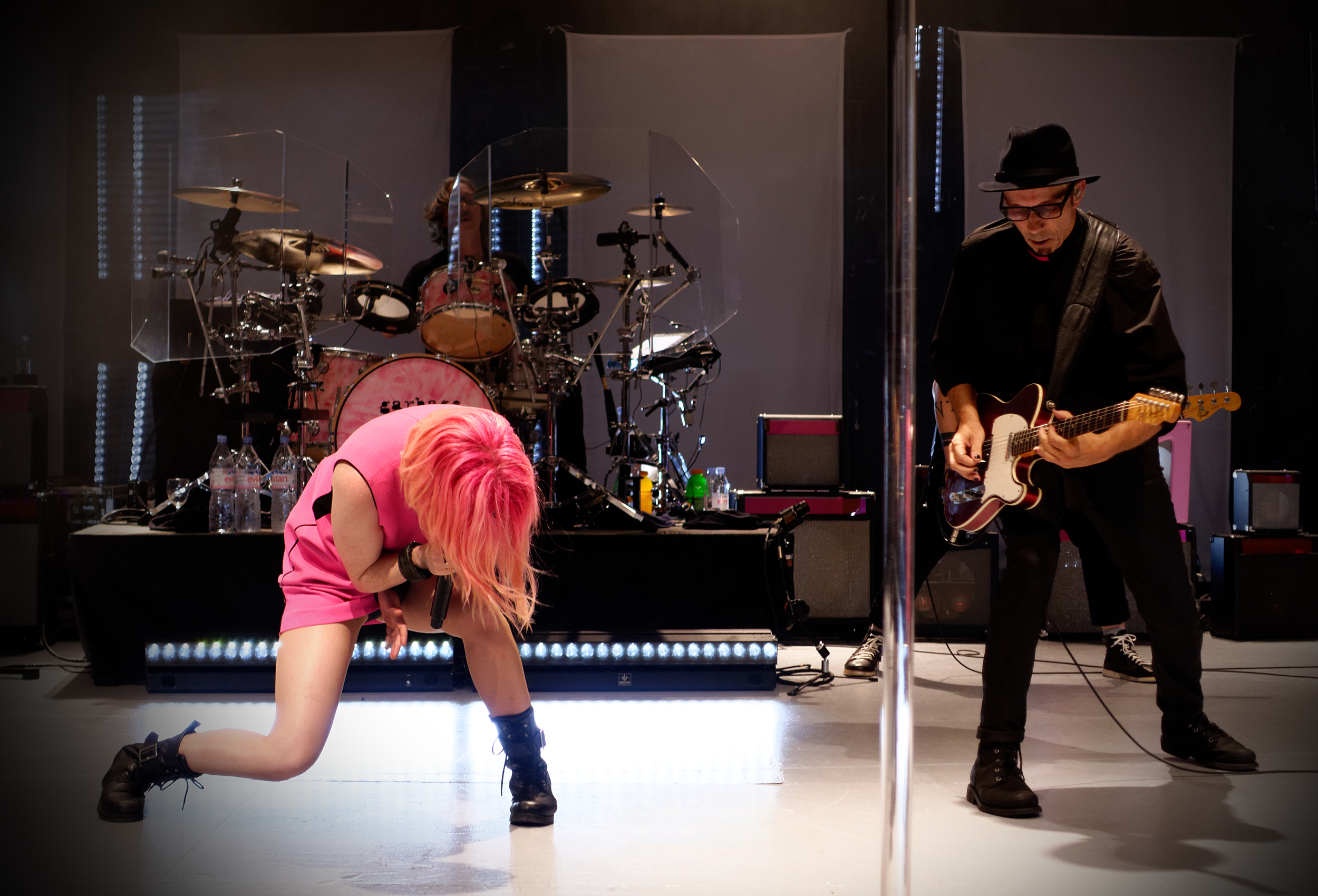 Garbage performing live at The Greek Theatre in Los Angeles California on Thursday October 8th, 2015. This was the third stop on their "20 Years Queer" tour.